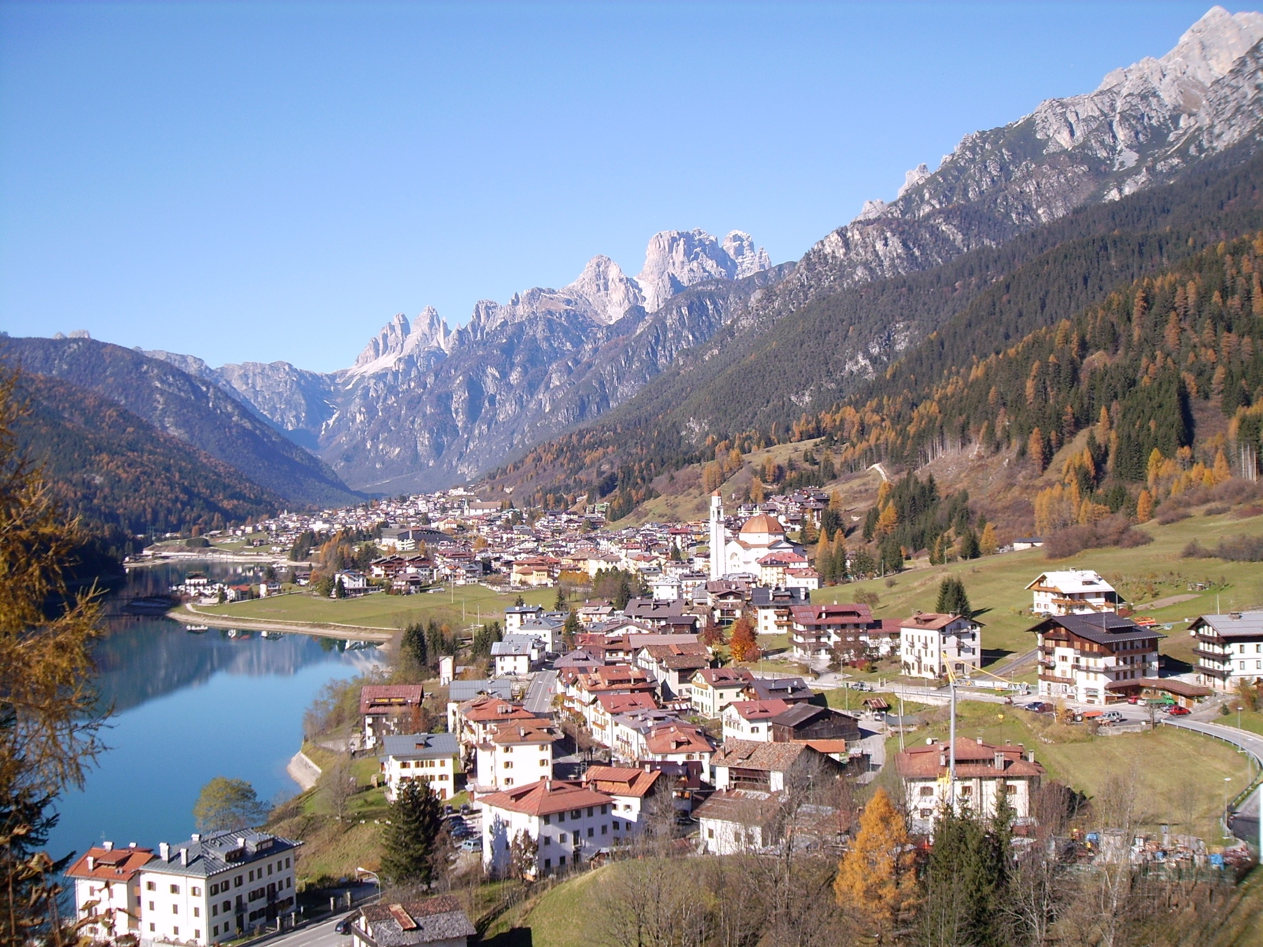 Autumn in Auronzo di Cadore ,Dolomites,Belluno,Italy in the background (fltr) Tre Cime di Lavaredo (Drei Zinnen), Cima d'Auronzo and Croda dei Toni (Zwölferkofel).